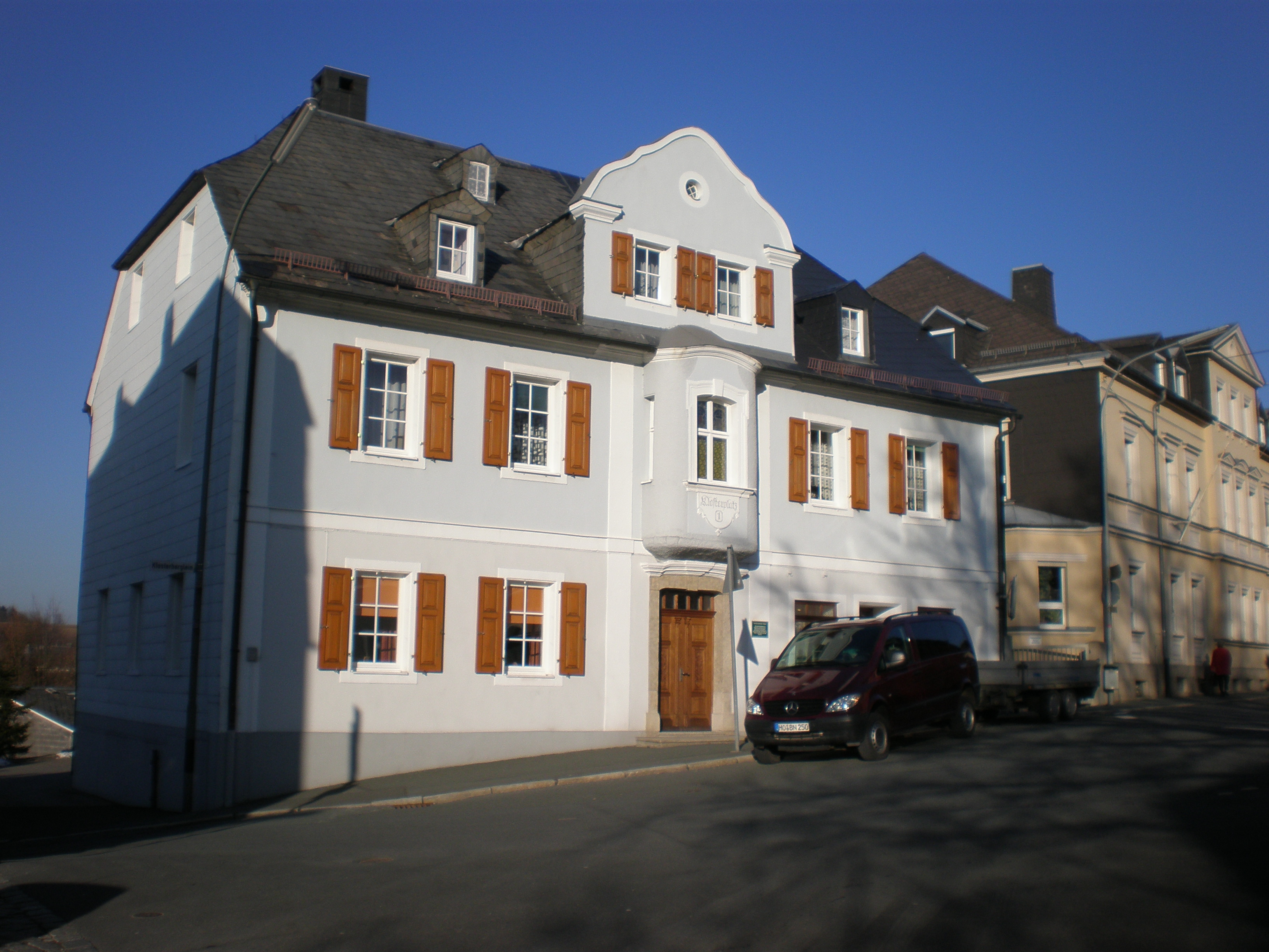 The so called "Siebenbrüderhaus" in Münchberg.